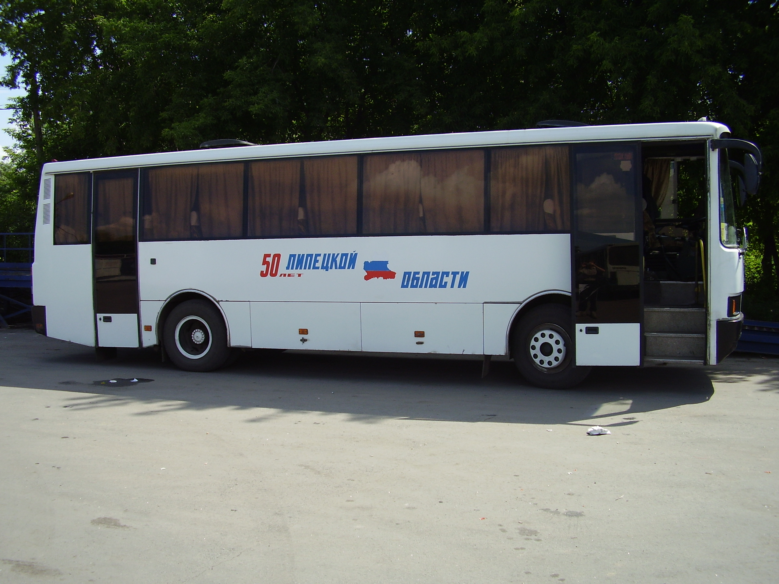 LAZ Liner 10 bus in Lipetsk, Russia.